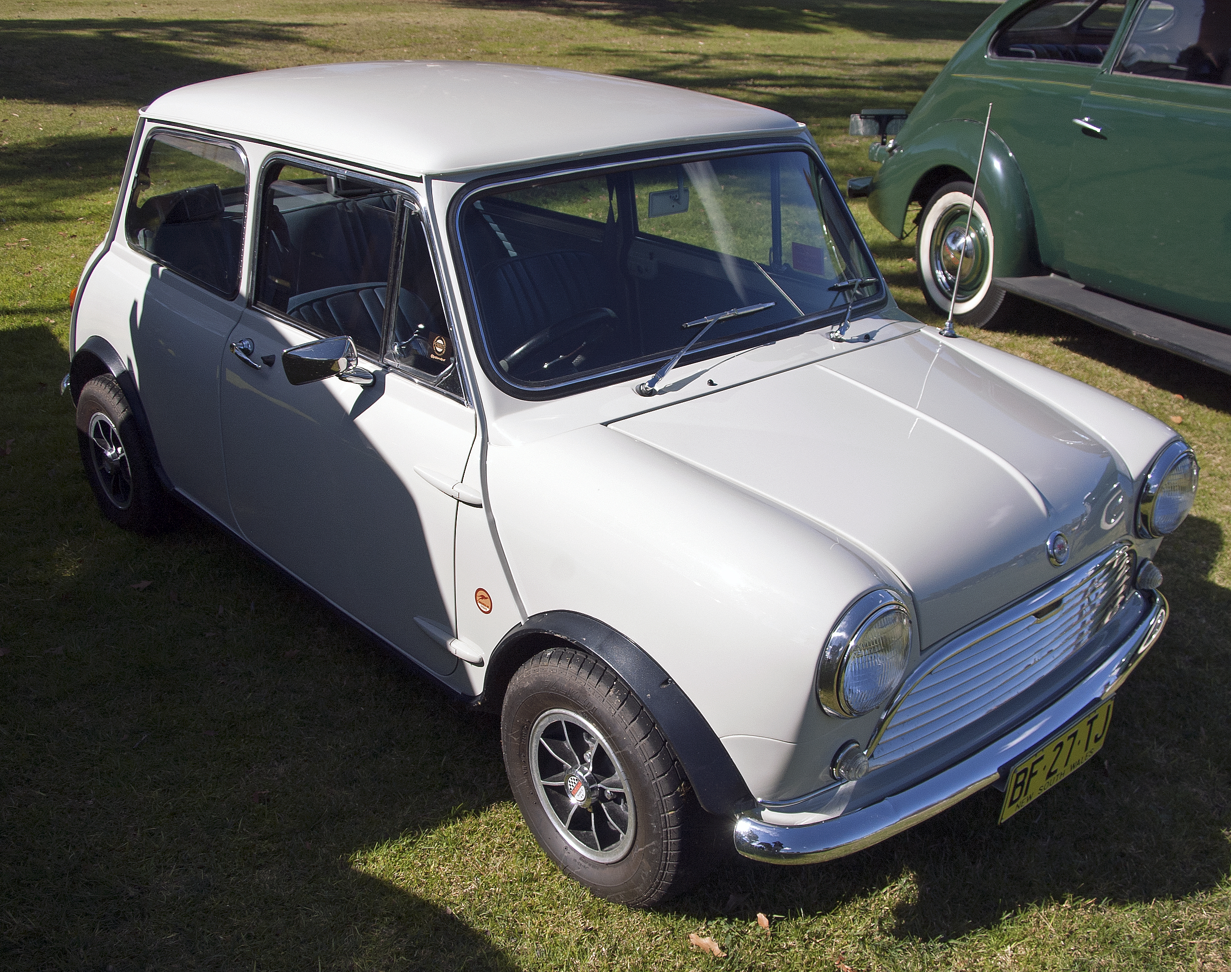 1969–1971 Morris Mini K on display during the 2011 Kidney Kar Rally's Kruise and Shine in Wagga Wagga, New South Wales, Australia.